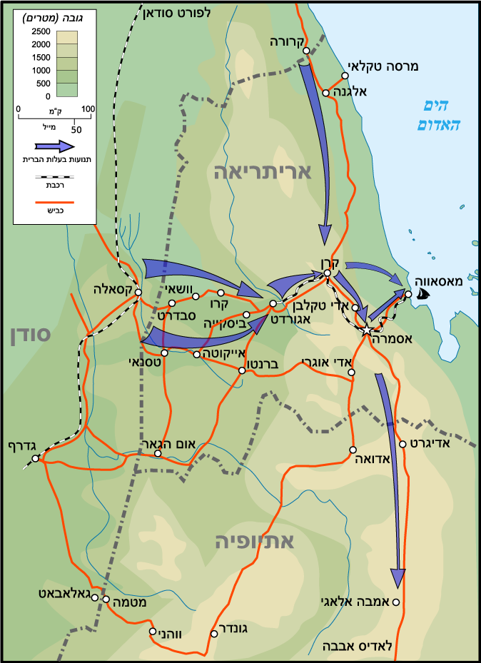 British advances, Eritrean Campaign 1941 Based on File:EritreaCampaign1941 map He.svg